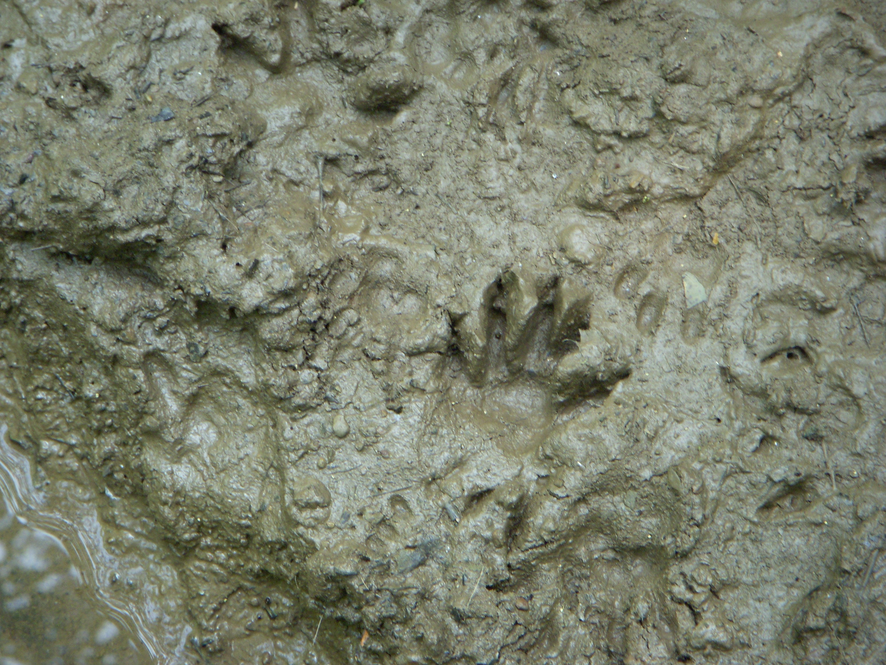 Foot print or track of a raccoon left in mud, location is south western Pennsylvania.